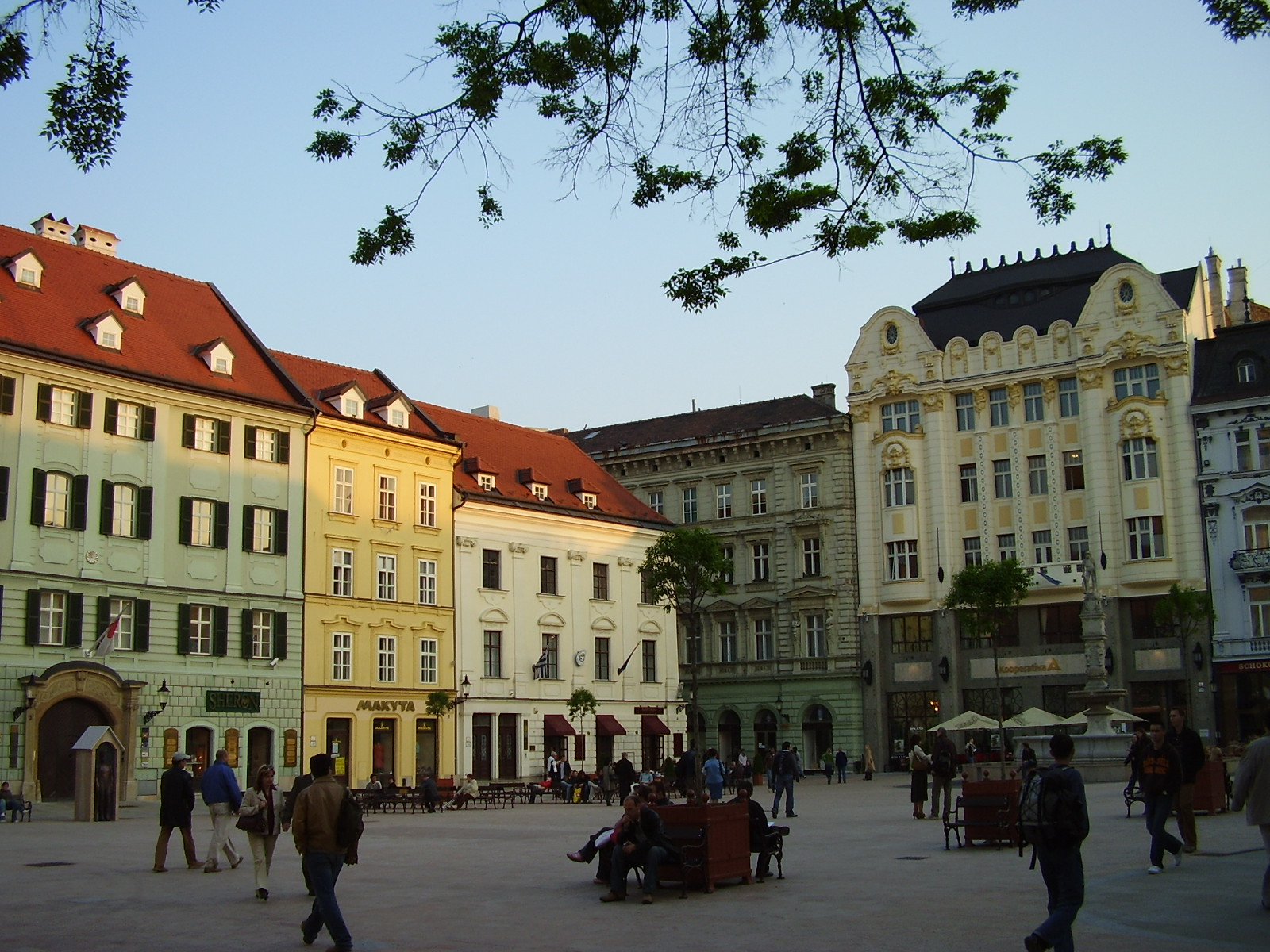 The Main Square in Bratislava